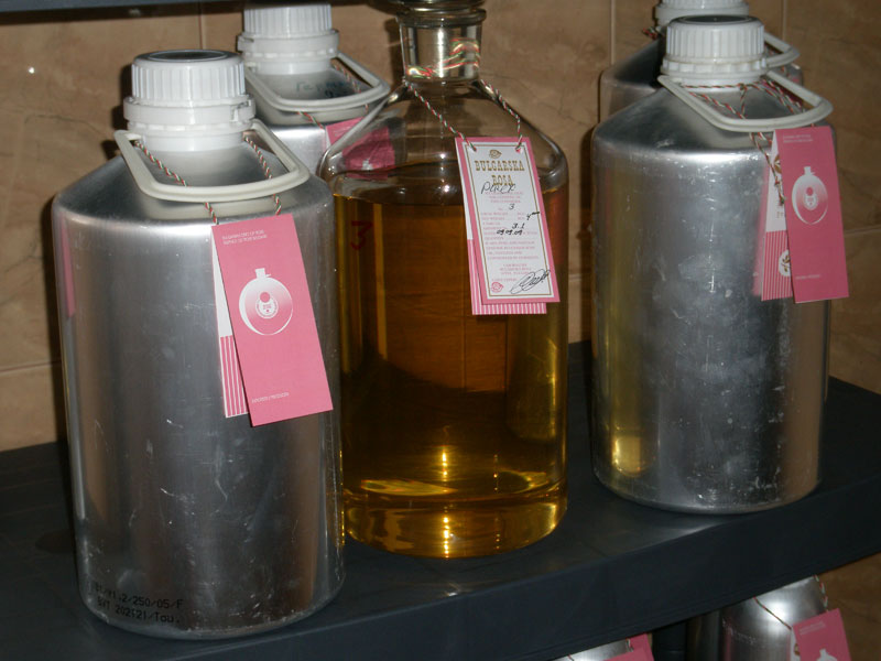 rose oil